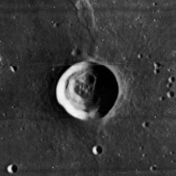 C. Herschel, on the moon.